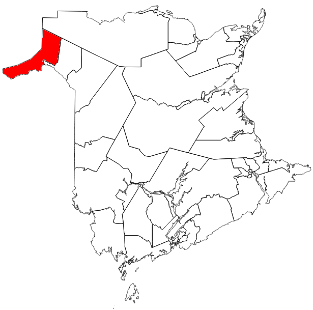 The riding of Madawaska les Lacs-Edmundston in relation to other New Brunswick electoral districts.